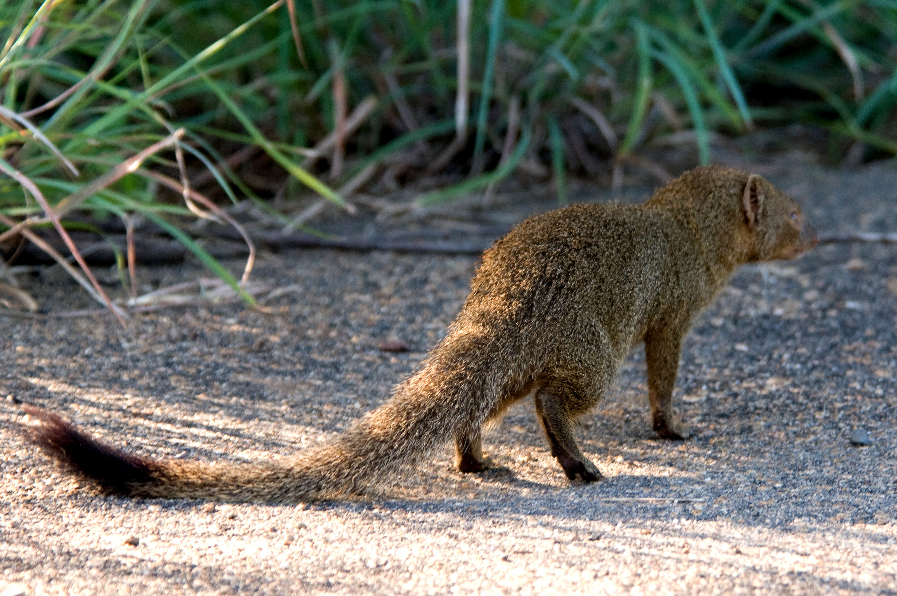 Slender Mongoose (Galerella sanguinea). Also called Black-tipped Mongoose - it's easy to see why! Dysmorodrepanis 01:29, 29 May 2008 (UTC)